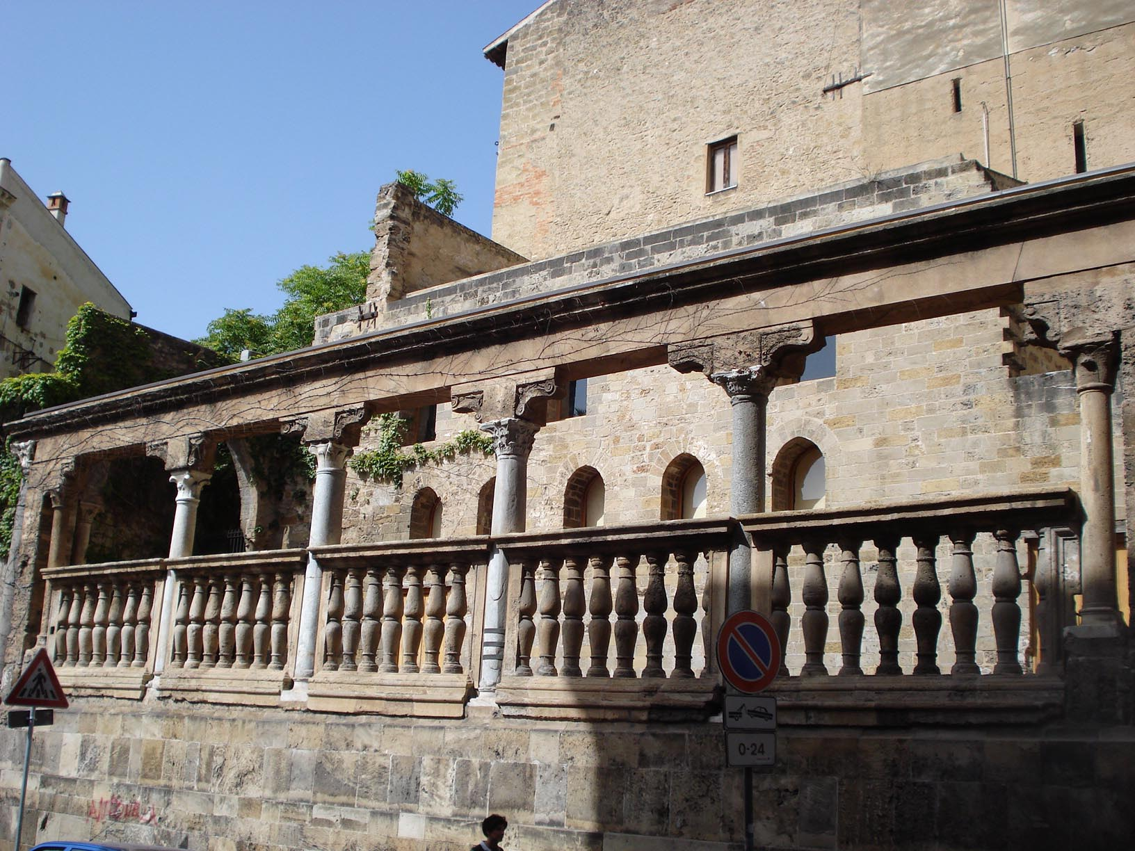 Loggia and Chapel of Coronation (Palermo Cathedral). The Loggia was erected in late 16th. century, reusing some Byzantine columns and capitals that may in turn have been used in the Great Mosque, preceding the Norman Cathedral. Architectural elements of an Aghlabid building (9th. century), maybe referable to the Great Mosque, were enclosed in the fondations of the Norman Chapel of Santa Maria l'Incoronata (en: the crowned), located behind the Loggia.